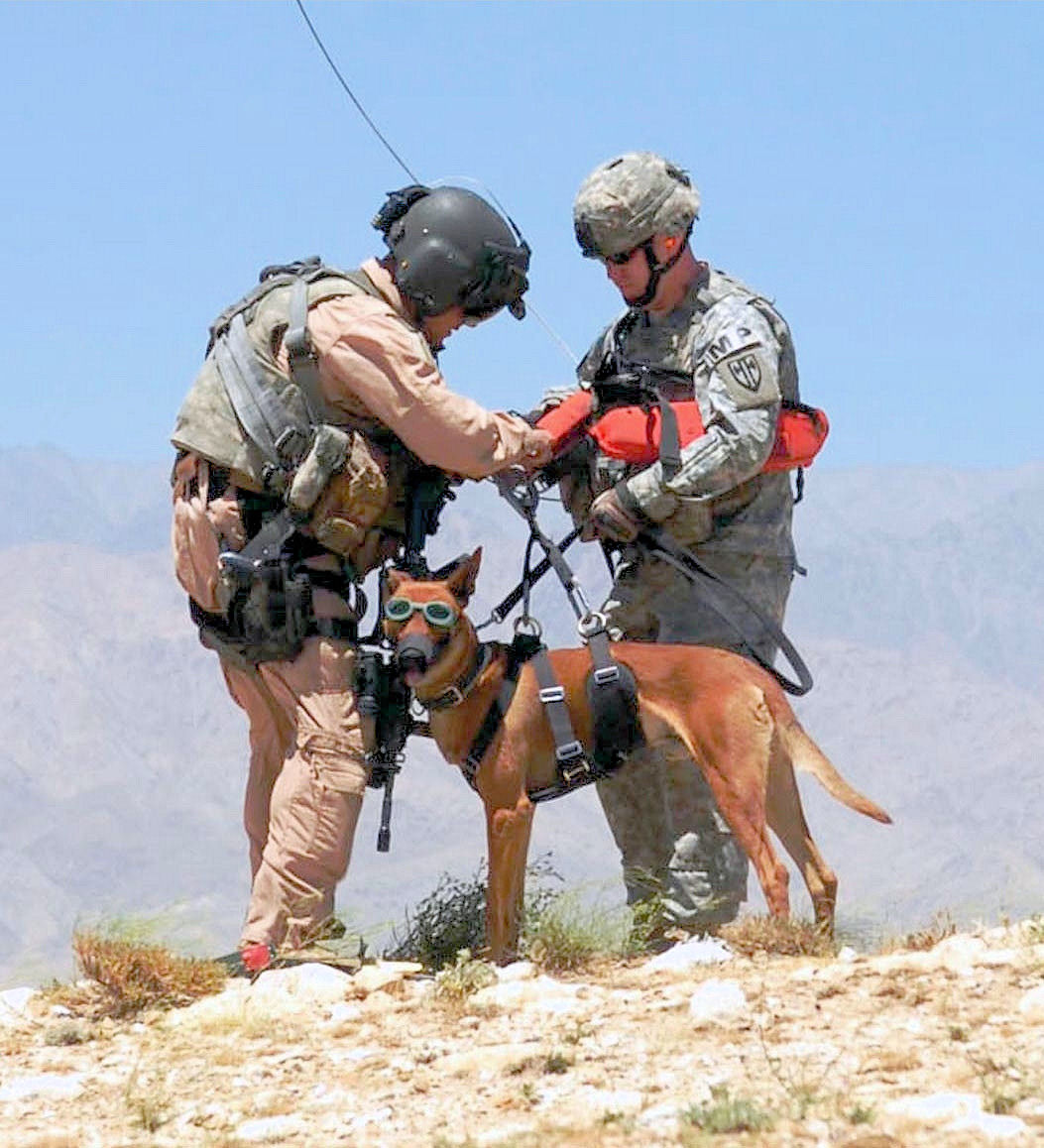 Dog handler Sgt. Michael Hile prepares his partner "Rronnie" to be hoisted by a helicopter. Original caption: "BAGRAM AIRFIELD, Afghanistan (July 15, 2007) - 1st Sgt. Dean Bissey hooks the hoist harness to Staff Sgt. Michael Hile and his military working dog "Rronnie" (spelled with two "Rs"). Photo by Spc. Aubree Rundle, U.S. Army."